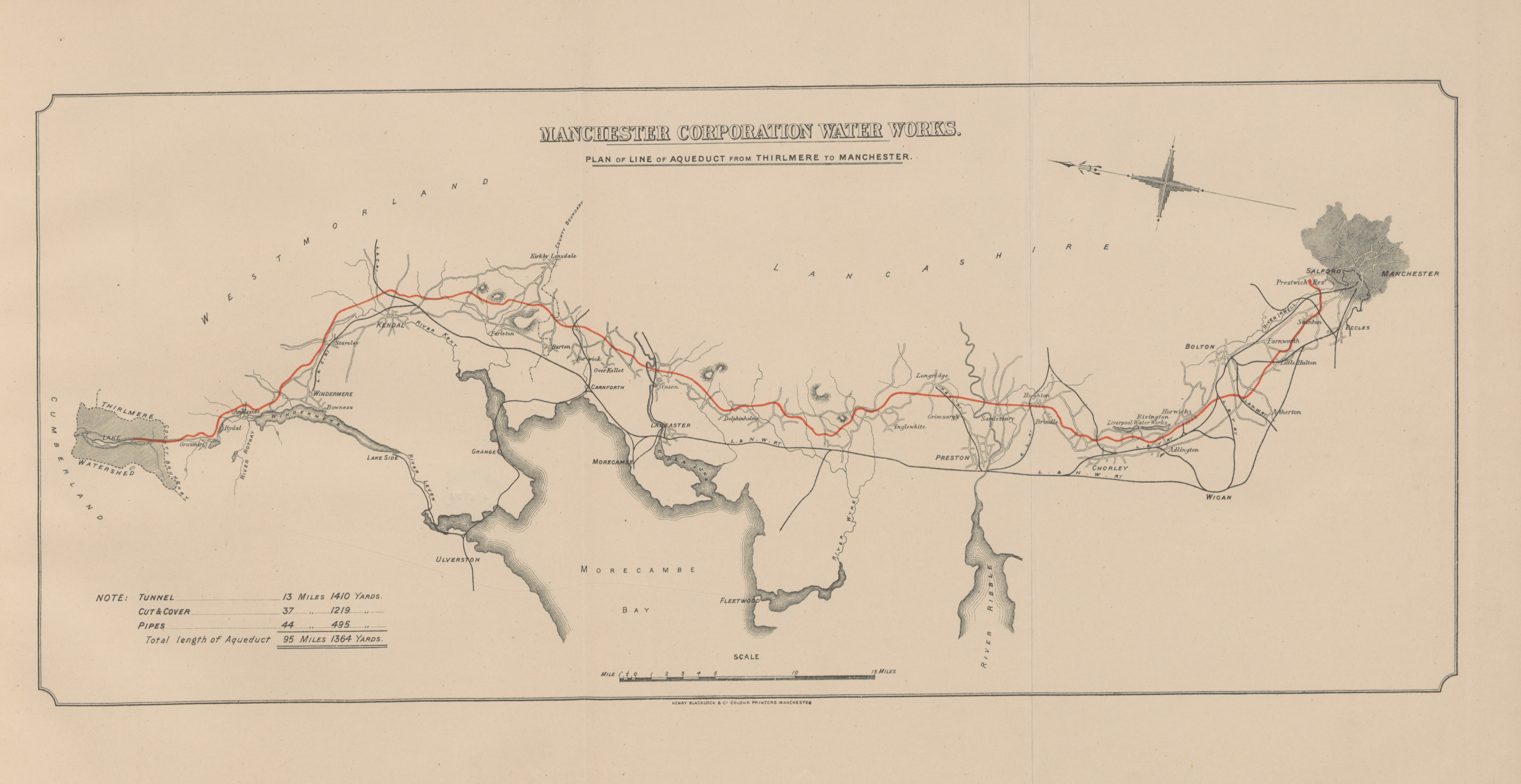 View this map on the BL Georeferencer service. Image taken from: Title: "An Historical Record of some recent enterprises of the Corporation of Manchester and of its co-operation in the completion of the Manchester Ship Canal. [With plates.]" Author: Council (MANCHESTER) Shelfmark: "British Library HMNTS 10358.h.26." Page: 73 Place of Publishing: Manchester Date of Publishing: 1894 Publisher: Blacklock & Co. Issuance: monographic Identifier: 002361438 Explore: Find this item in the British Library catalogue, 'Explore'. Open the page in the British Library's itemViewer (page image 73) Download the PDF for this book Image found on book scan 73 (NB not a pagenumber)Download the OCR-derived text for this volume: (plain text) or (json) Click here to see all the illustrations in this book and click here to browse other illustrations published in books in the same year. Order a higher quality version from here.